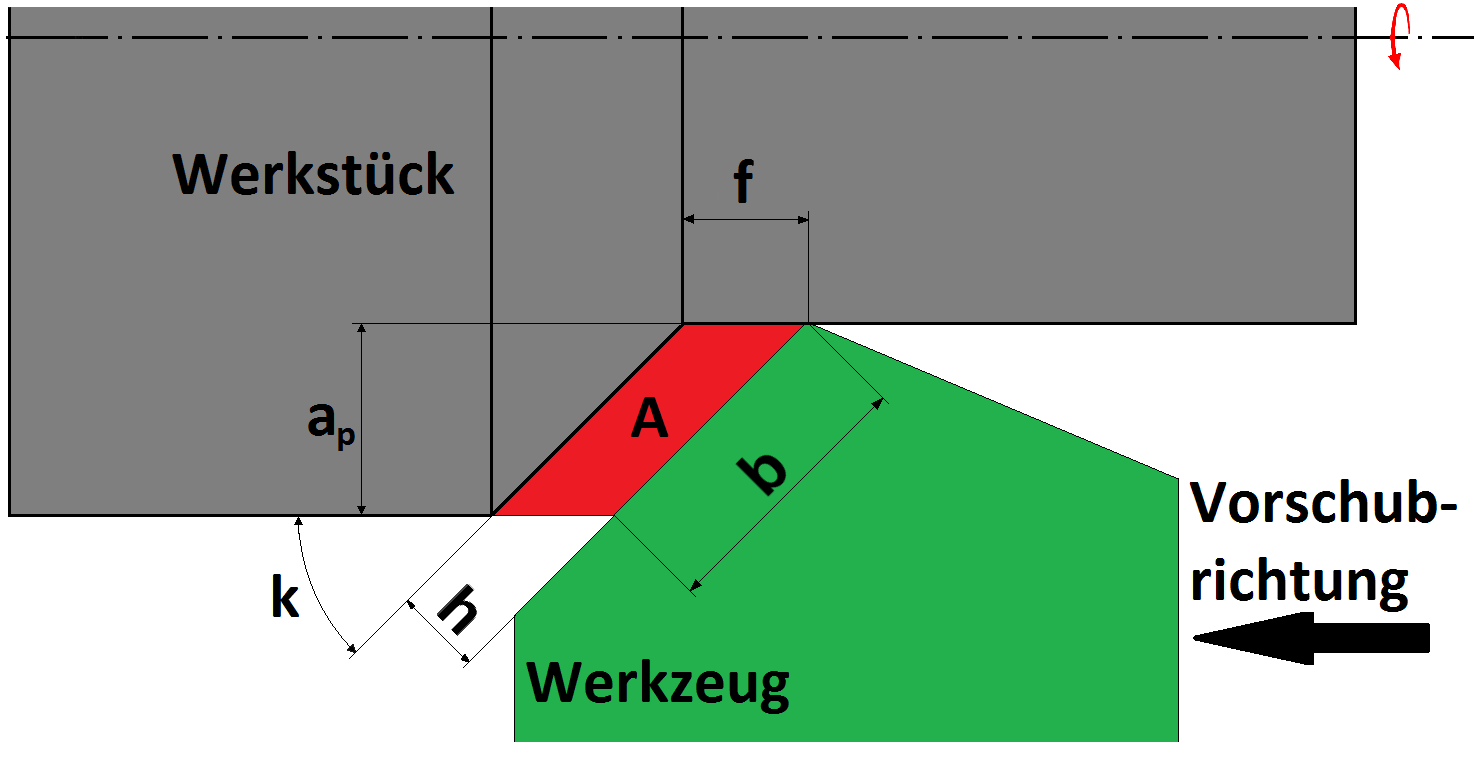 Thikness of cut h, Width of cut b, sectional area of chip A, depth of cut ap, feed f and tool cutting edge angle k (kappa)